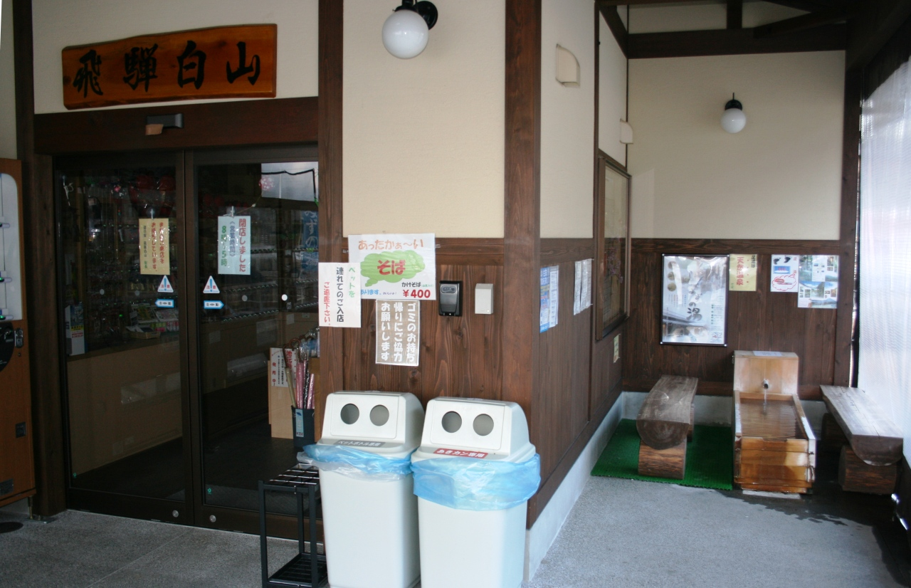 Hidahakusan_Michinoeki_Ashiyu_2010_4_18